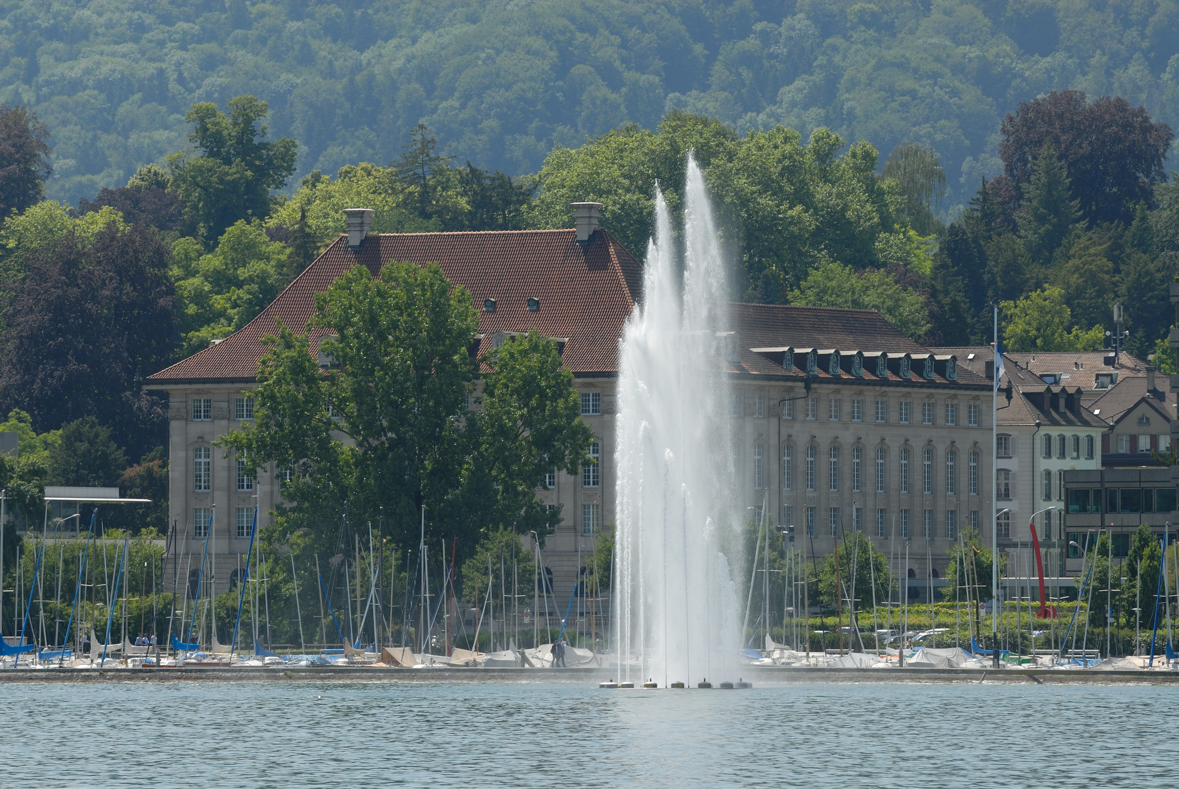 Swiss Re corporate headquarters at Mythenquai 50/60 in Zurich. Photo taken from a passenger ship of the Zürichsee-Schifffahrtsgesellschaft.